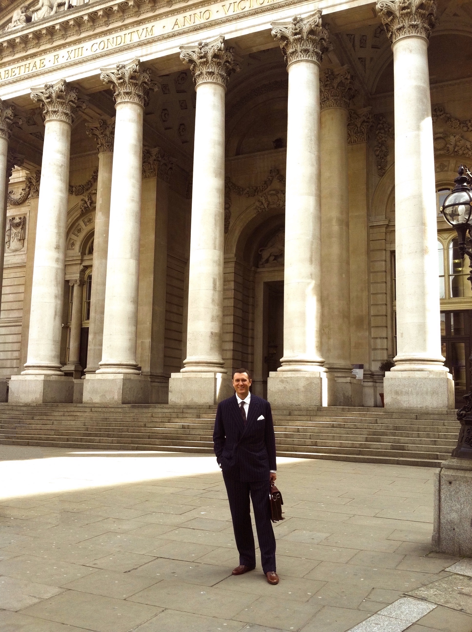 Image of Taylor Moffitt of Halydean, 15th Baron and Lord of Halydean, Roxburgh, Scotland, UK. 2012, in front of the old London Stock Exchange.